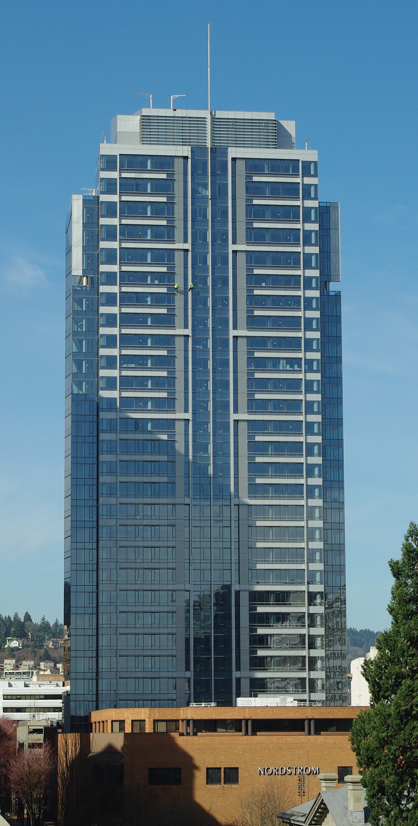 Park Avenue West Tower in Downtown Portland, Oregon, with Nordstrom in foreground.